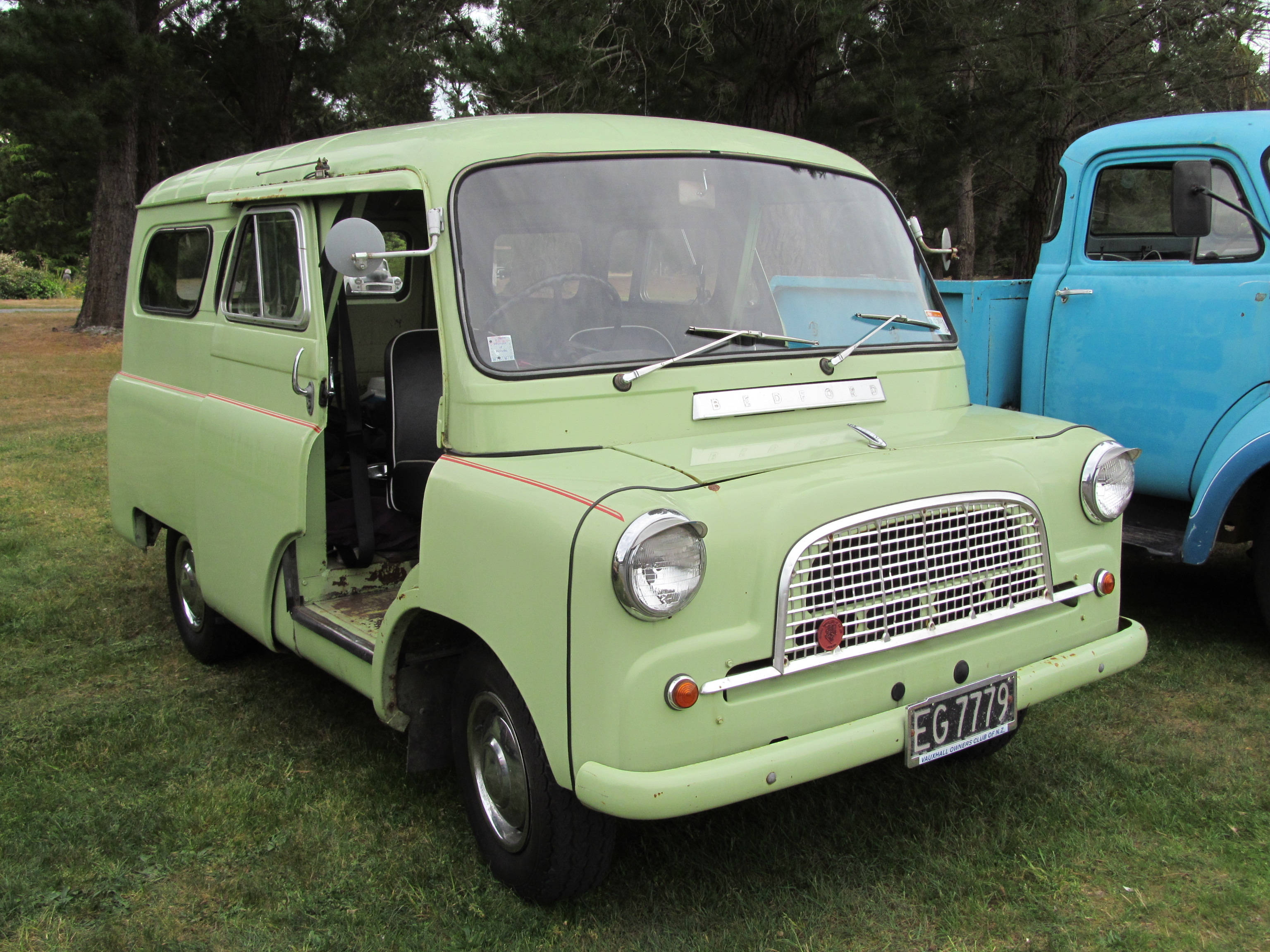 This was easily the highlight of the meet for me - these CAs were known for rusting badly, but this one was very clean and so original. The sliding door really makes it.